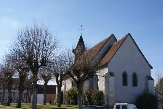 Vue de l'église. Photo prise par lemarie1957.